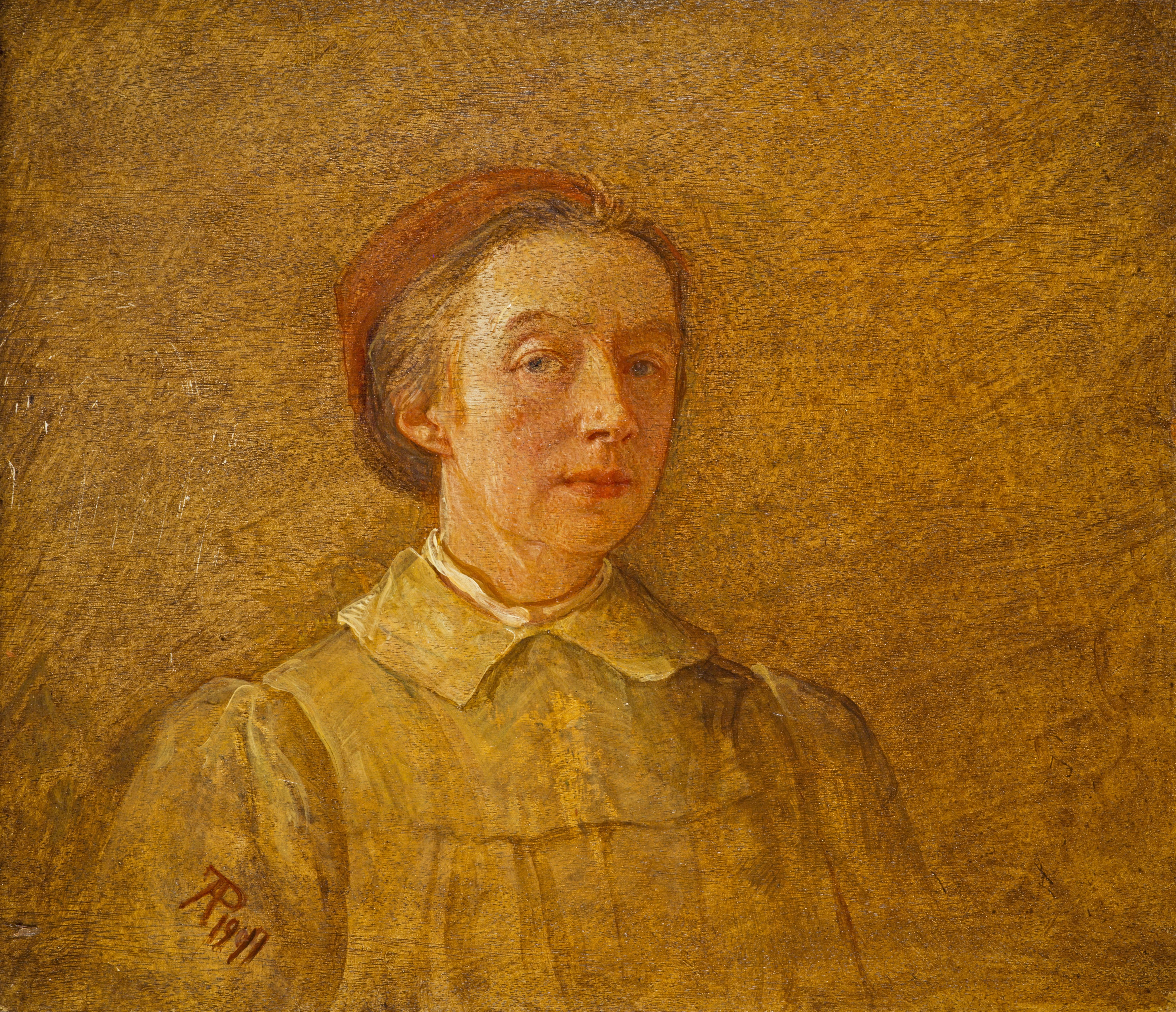 Traquair was one of the most talented artists working within the movement known as the Celtic Revival. Influenced by the Pre-Raphaelites, she painted murals for several religious and charitable organisations in Edinburgh, including the Catholic Apostolic Church in Broughton Street. She was also a brilliant embroiderer and made exquisite enamel jewellery. Her self-portrait seems quite private and personal, but also hints at a nervous energy.